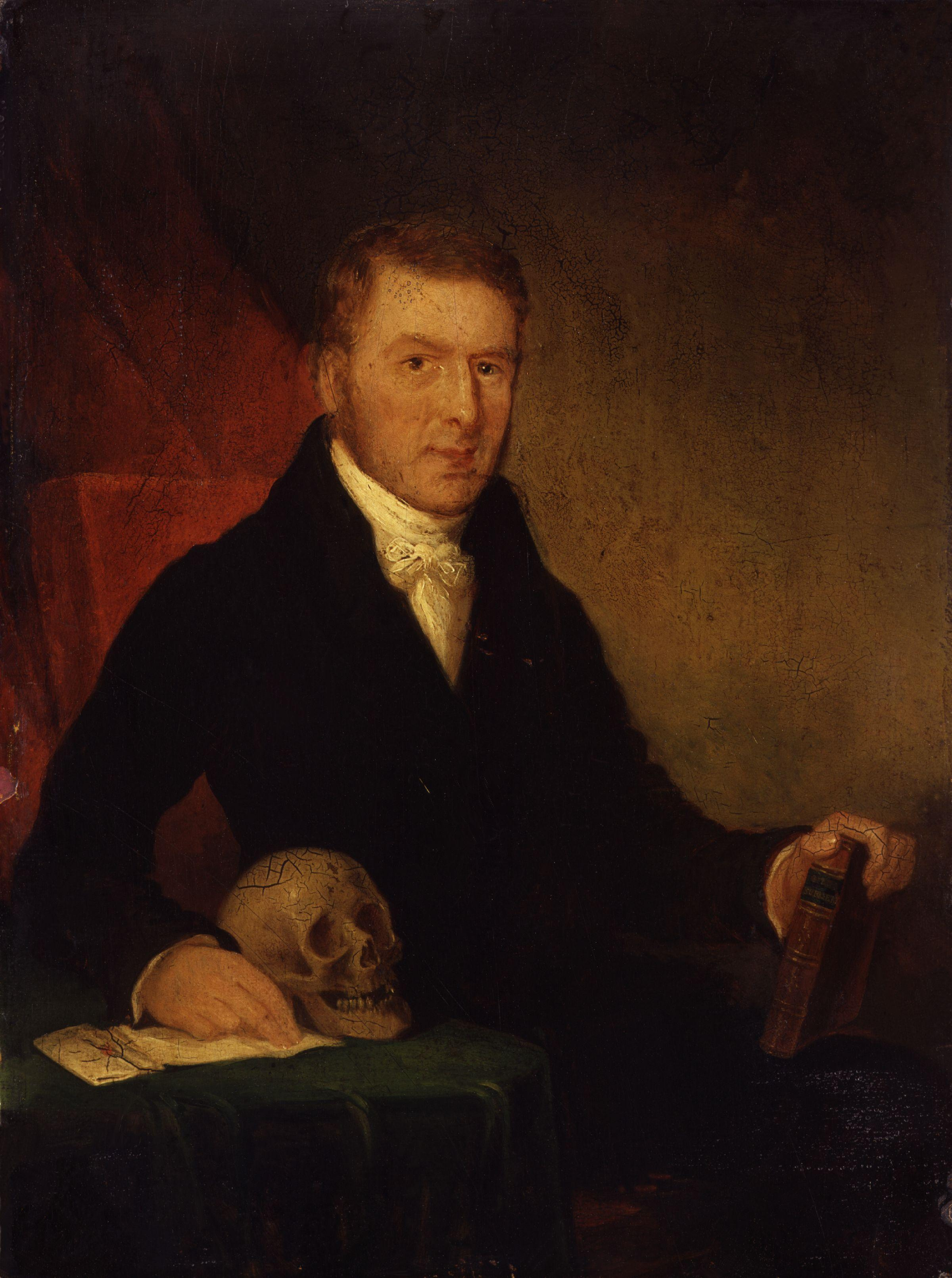 John Bell (1763-1820).See source website for more details. All images in this batch have an unknown author, but there is strong evidence it was first published before 1923 (based mainly on the NPG's estimated date of the work).